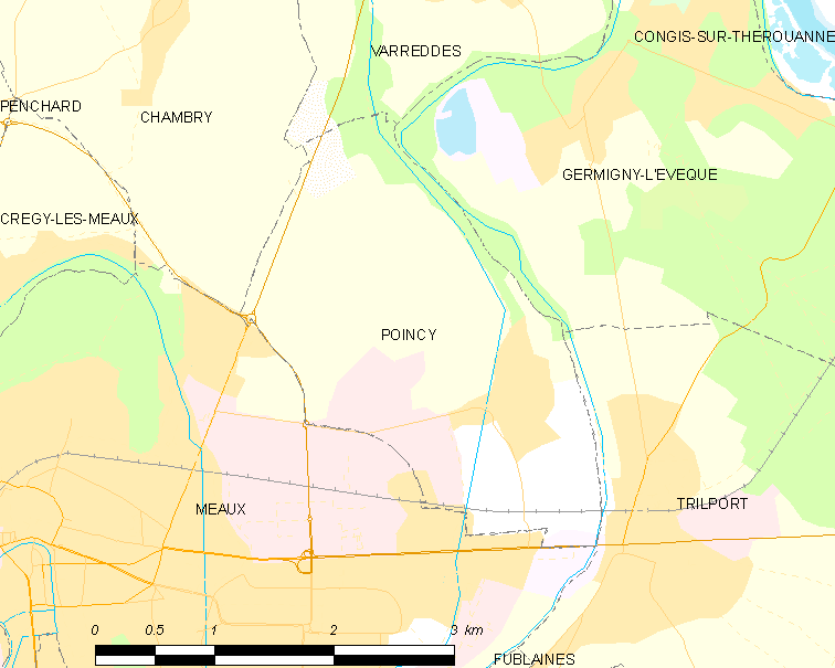 Map of French municipality Poincy